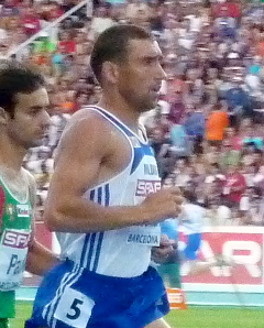 2010 European Championships in Athletics 3000m steeplechase final. Alberto Paulo, Ion Luchianov